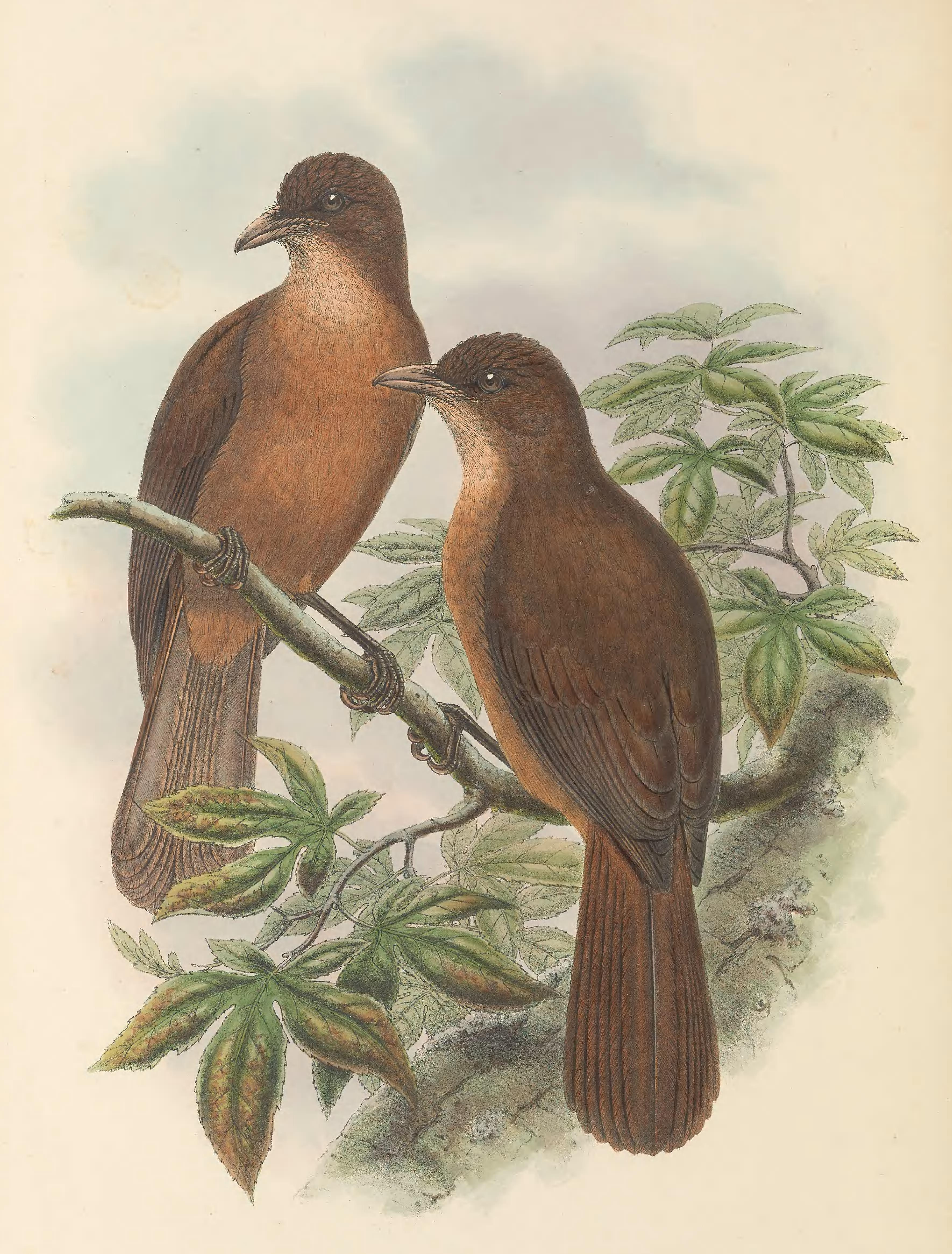 Rectes leucorhynchus = Pseudorectes ferrugineus leucorhynchus - The birds of New Guinea and the adjacent Papuan islands : including many new species recently discovered in Australia. v.1 (Plate LII).